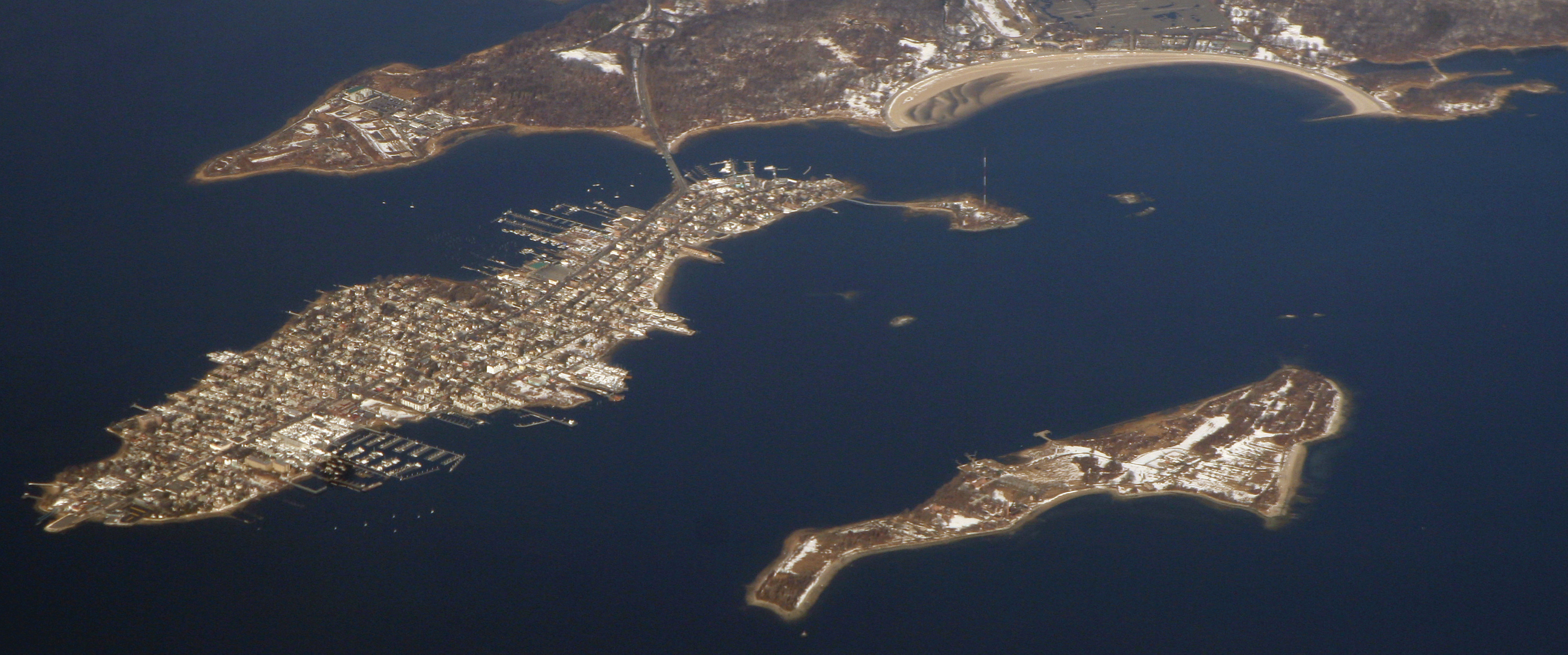 City Island and Hart Island, off Orchard Beach, Pelham Bay and Pelham Bay Park, Bronx, New York. Also featured are The Blauzes and Chimney Sweeps Islands. The small island between those two, on a thin causeway off the north (right) end of City Island, is the home of one tower radiating the signals of two of New York's original landmark 50,000-watt "clear channel" signals: WFAN/660 and WCBS/880. Earlier incarnations of WFAN were WNBC and WEAF. WCBS was originally WABC, and radiated from a tower on Columbia Island, off this shot to the right.